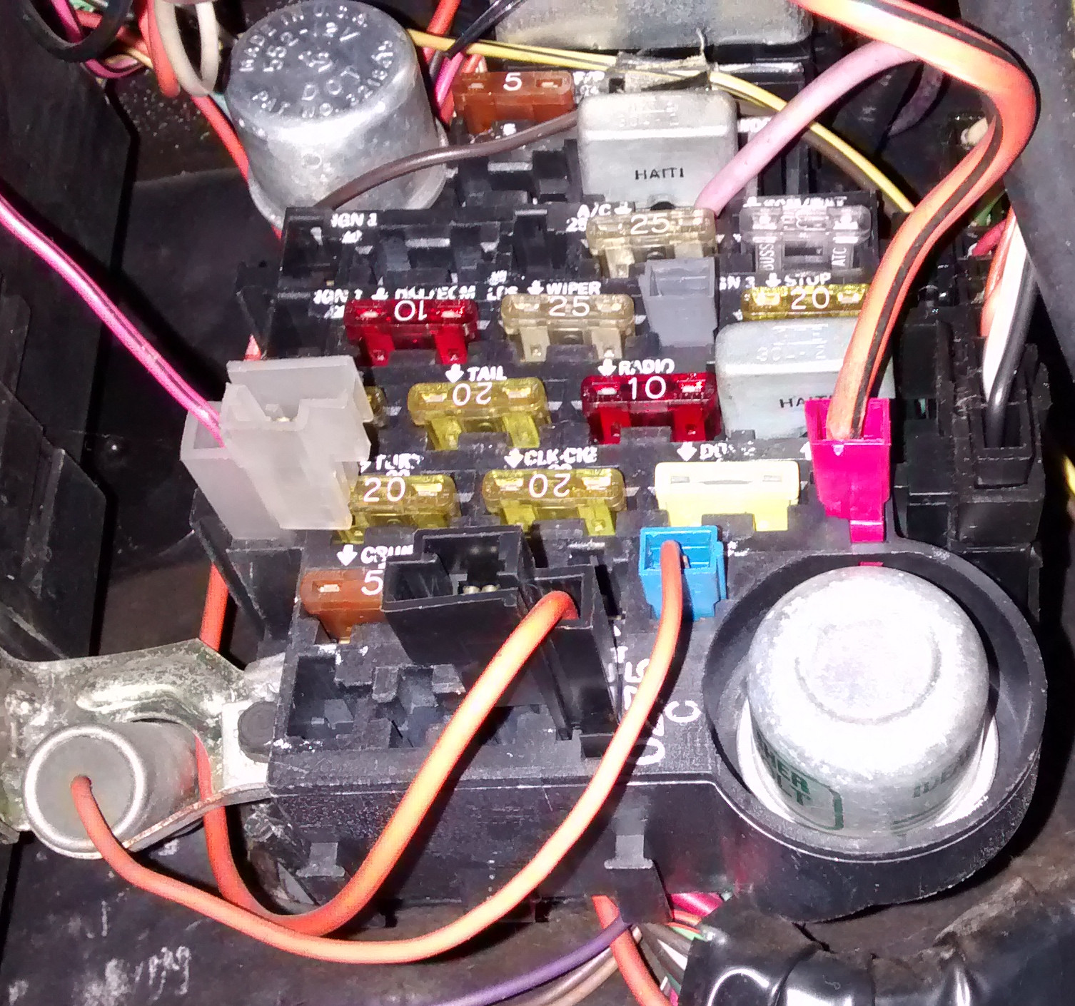 GM 1970-1980s Fusebox Flashers